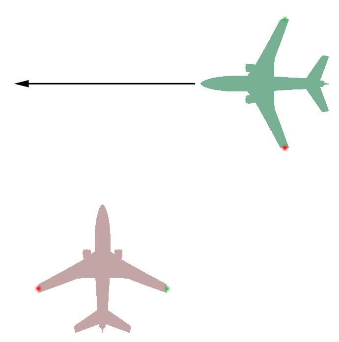 Taxiing aircraft right-of-way. The green aircraft has the right of way.